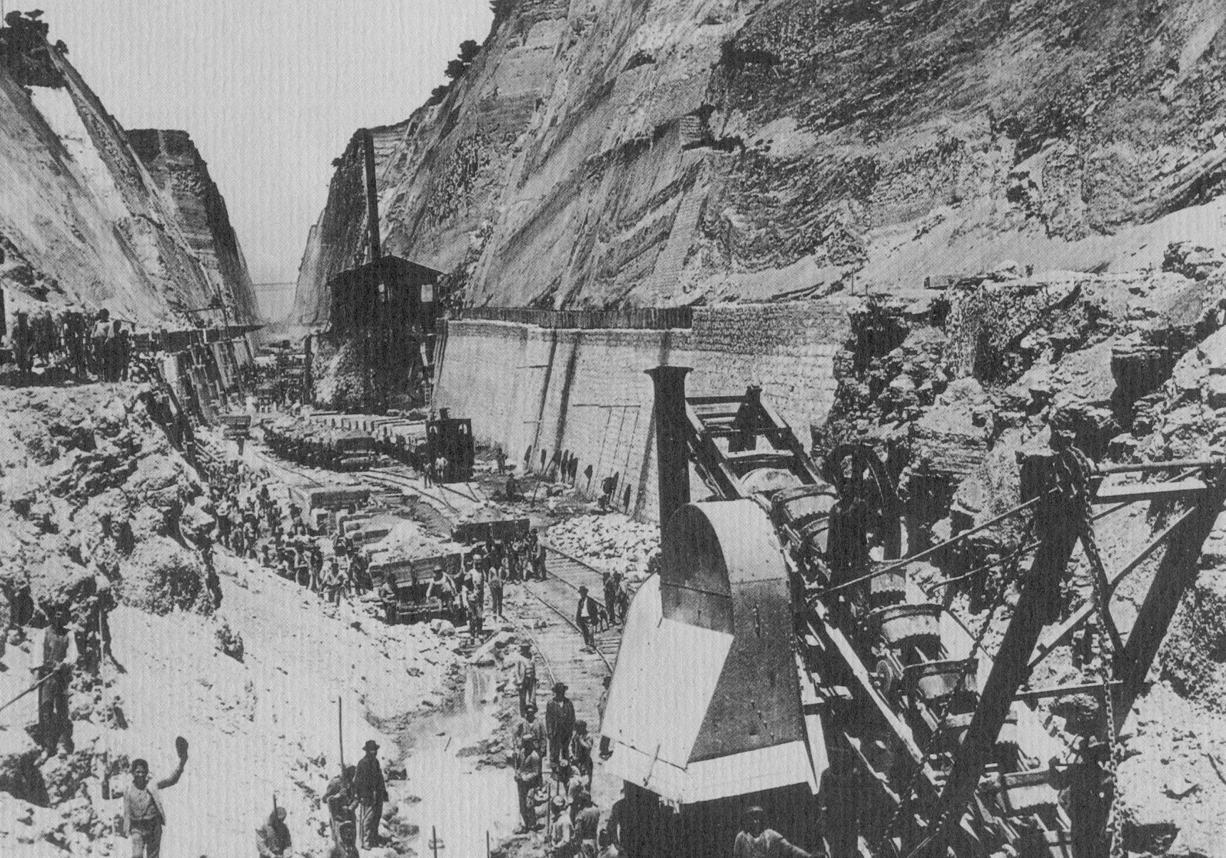 Corinth canal construction